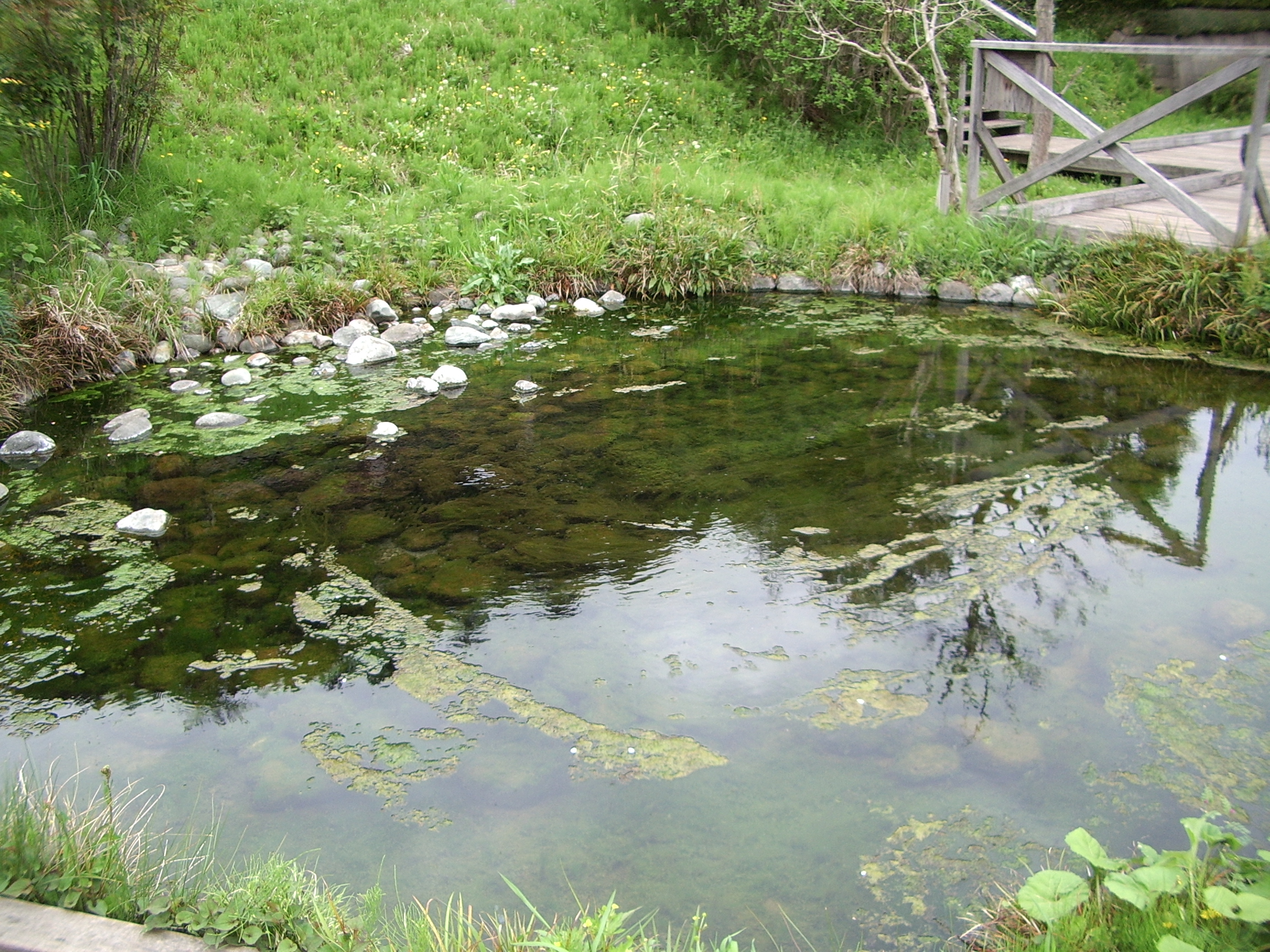 The origin spring of Tsurumigawa, Machida, Tokyo